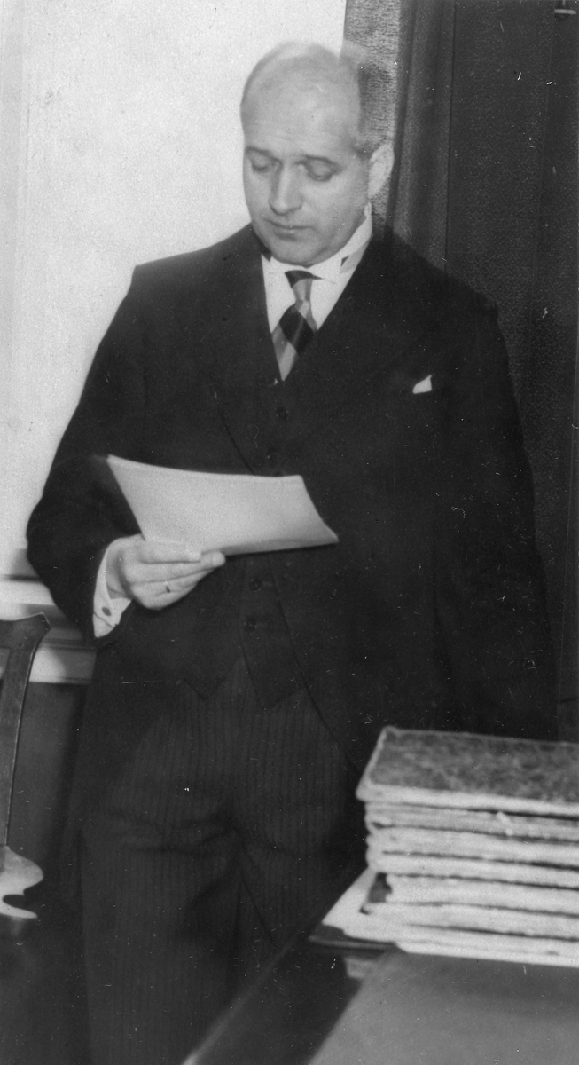 Asgaut Steinnes, Director General of the National Archives of Norway, ca. 1935